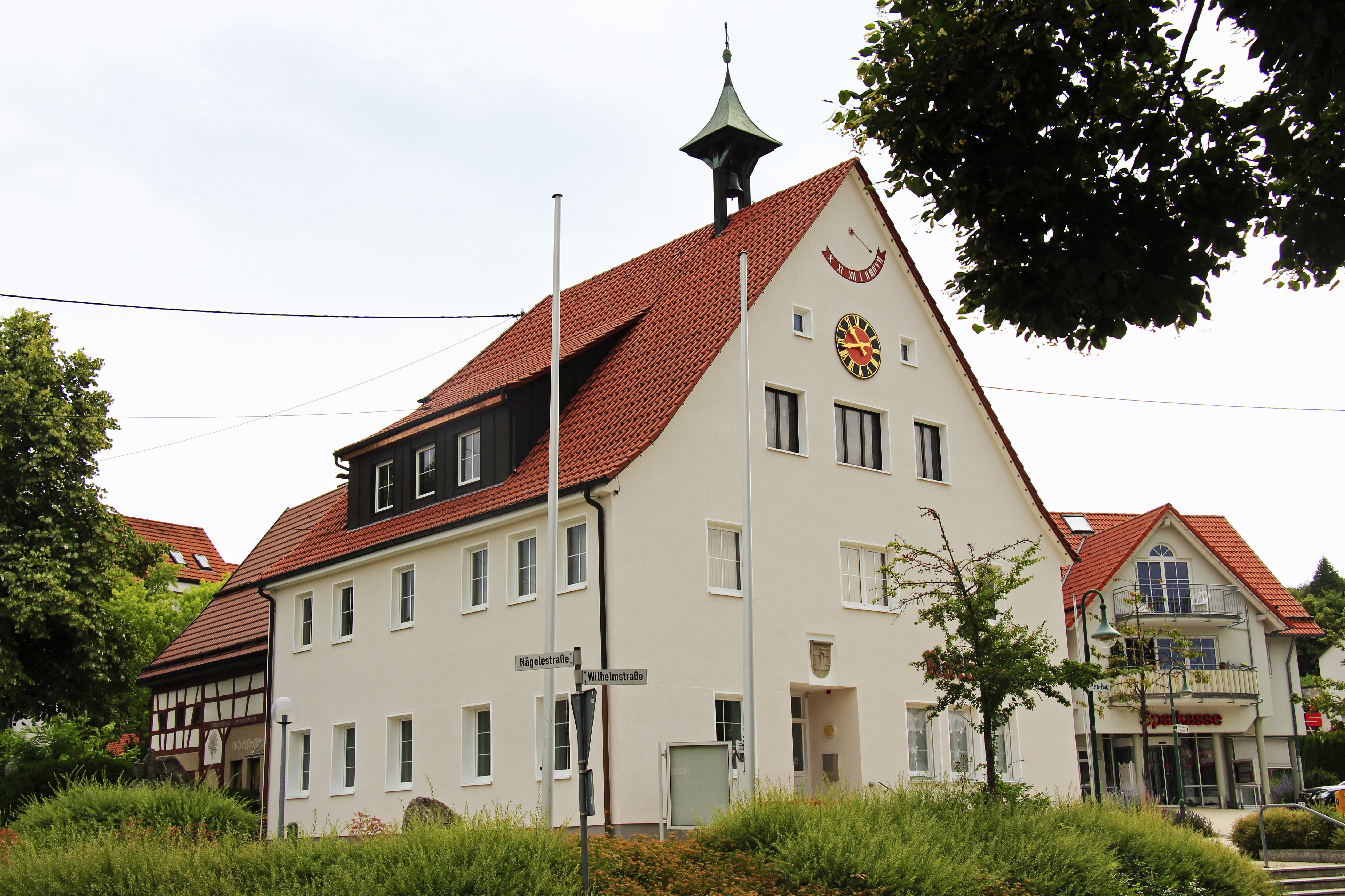 Albstadt-Onstmettingen city hall